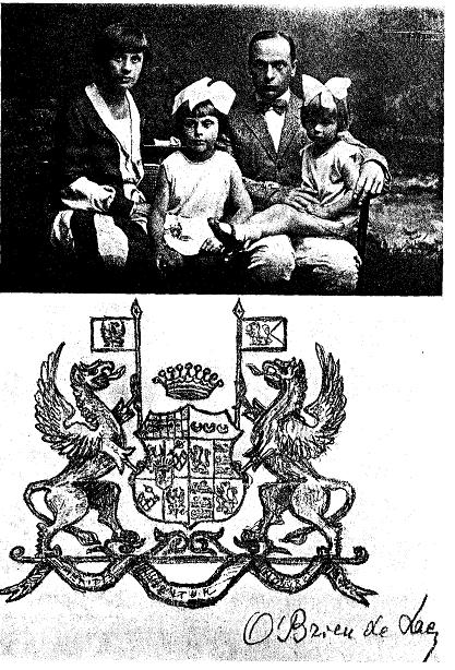 MAURICE, COUNT O'BRIEN DE LACY. (b. April, 1891, d.23.July 1978). Count Maurice was proprietor of the ancient estates and home at Augustowek Nowy : of his wife, the Princess Drucka, the offspring are two daughters.